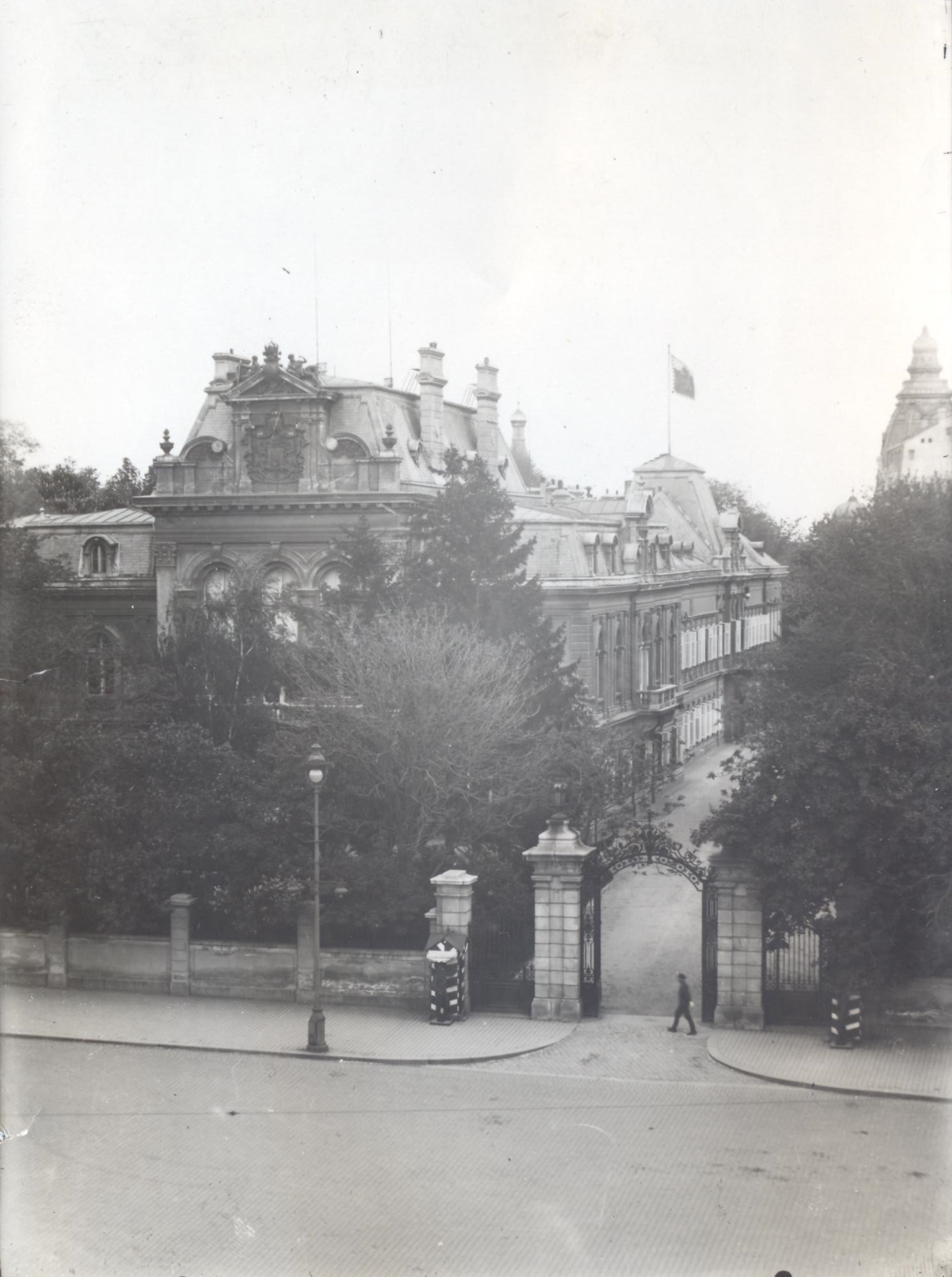 Royal Palace in Sofia, Bulgaria.